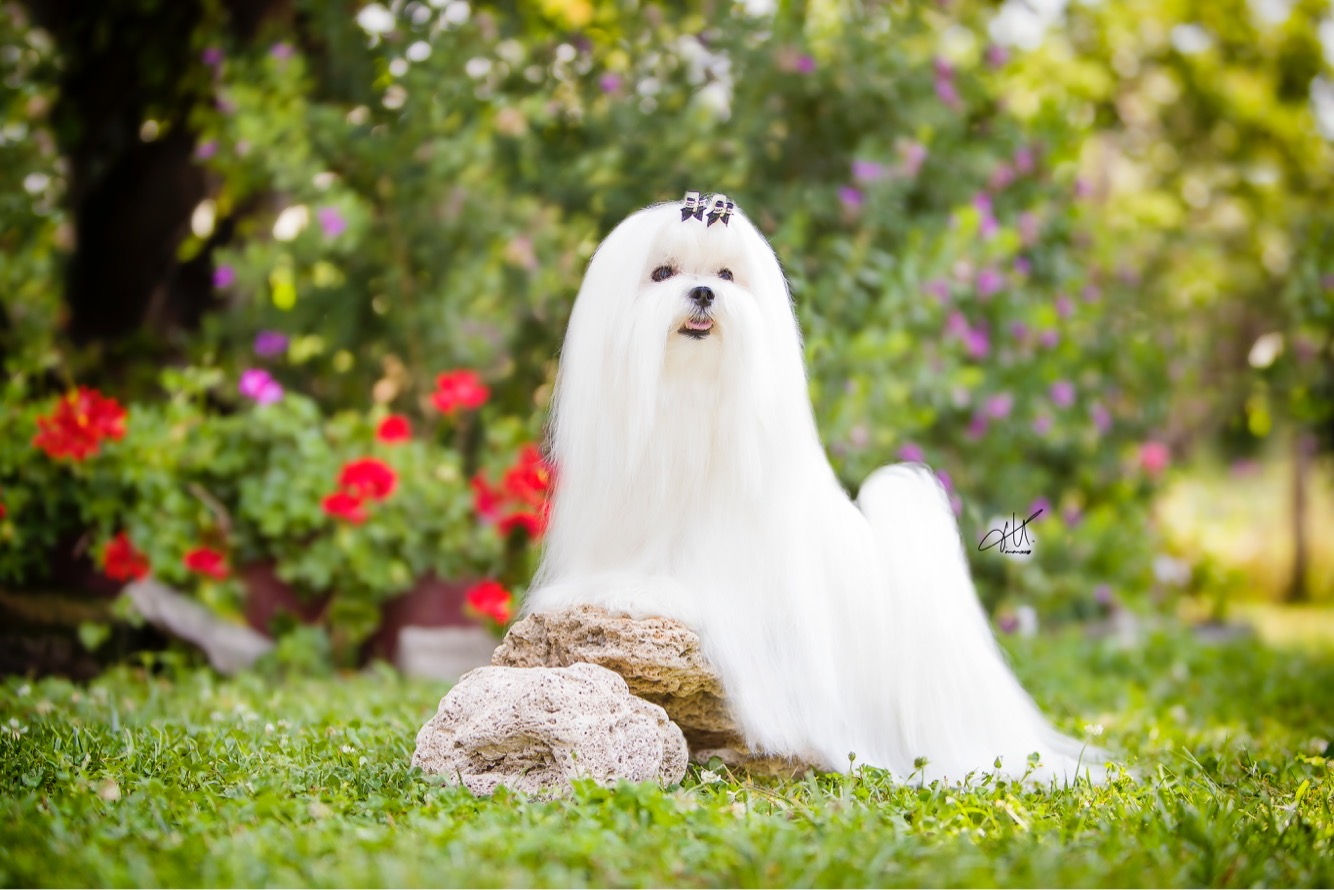 Maltese